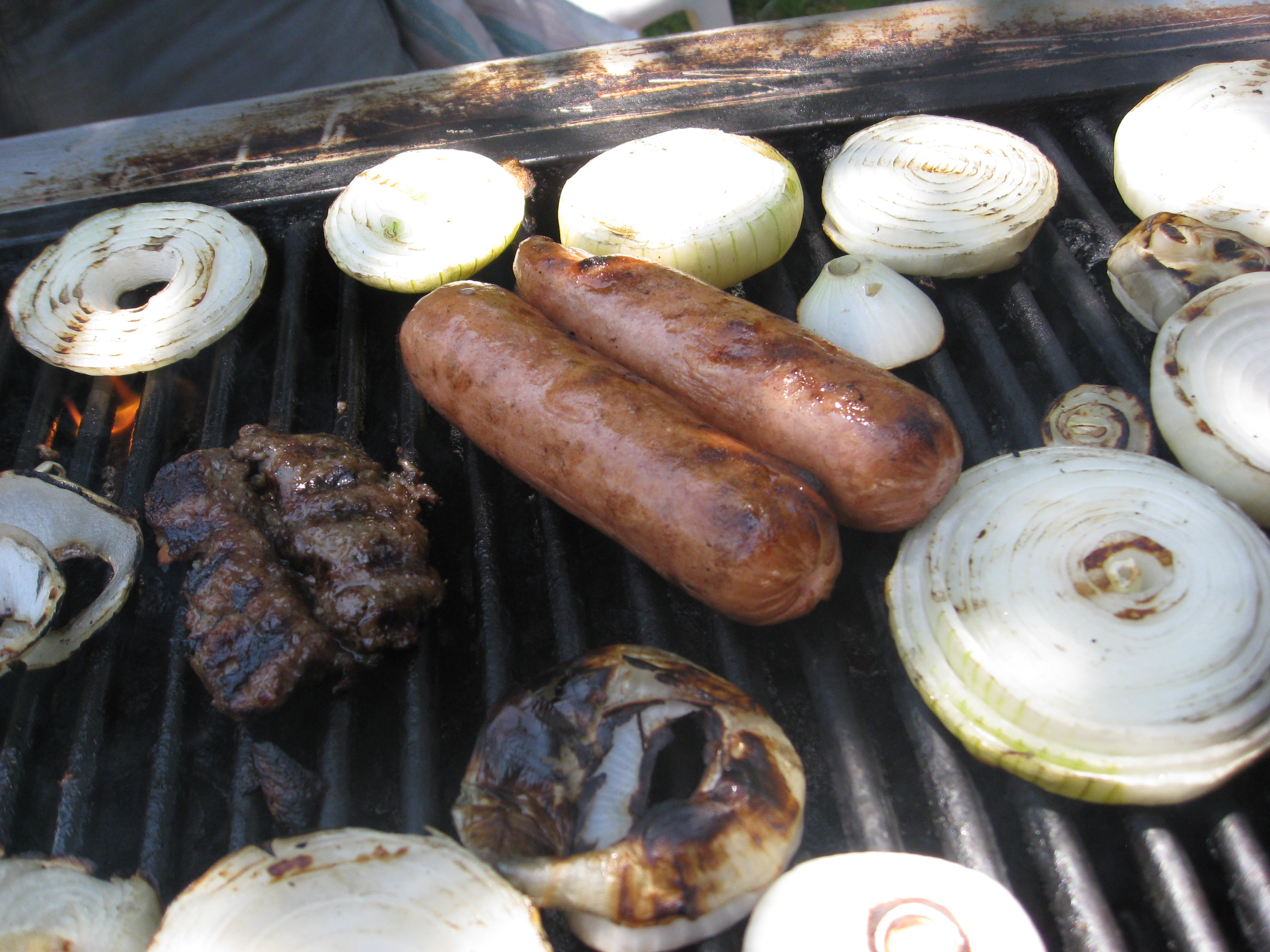 Sausages and grilled onions